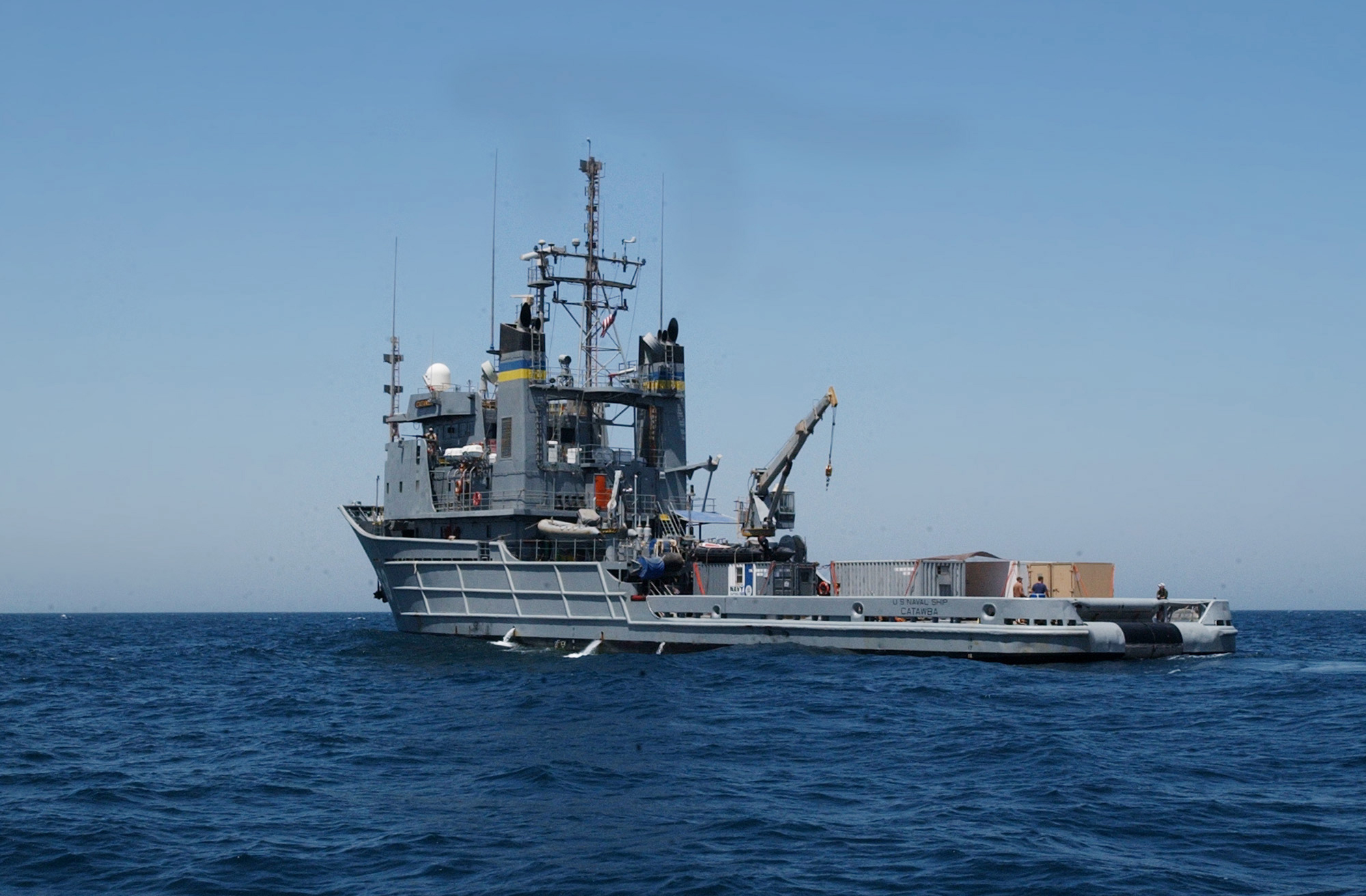 Arabian Gulf (Jun. 18, 2003) -- The fleet ocean tug USNS Catawba (T-ATF 168) steams through the waters of the Arabian Gulf. USNS Catawba is an ocean going tug, which can be used for diving and salvage operations and is forward deployed to the Arabian Gulf in support of Operation Iraqi Freedom. Operation Iraqi Freedom is the multi-national coalition effort to liberate the Iraqi people, eliminate Iraq’s weapons of mass destruction, and end the regime of Saddam Hussein. U.S. Navy photo by Photographer's Mate 1st Class Arlo K. Abrahamson. (RELEASED)